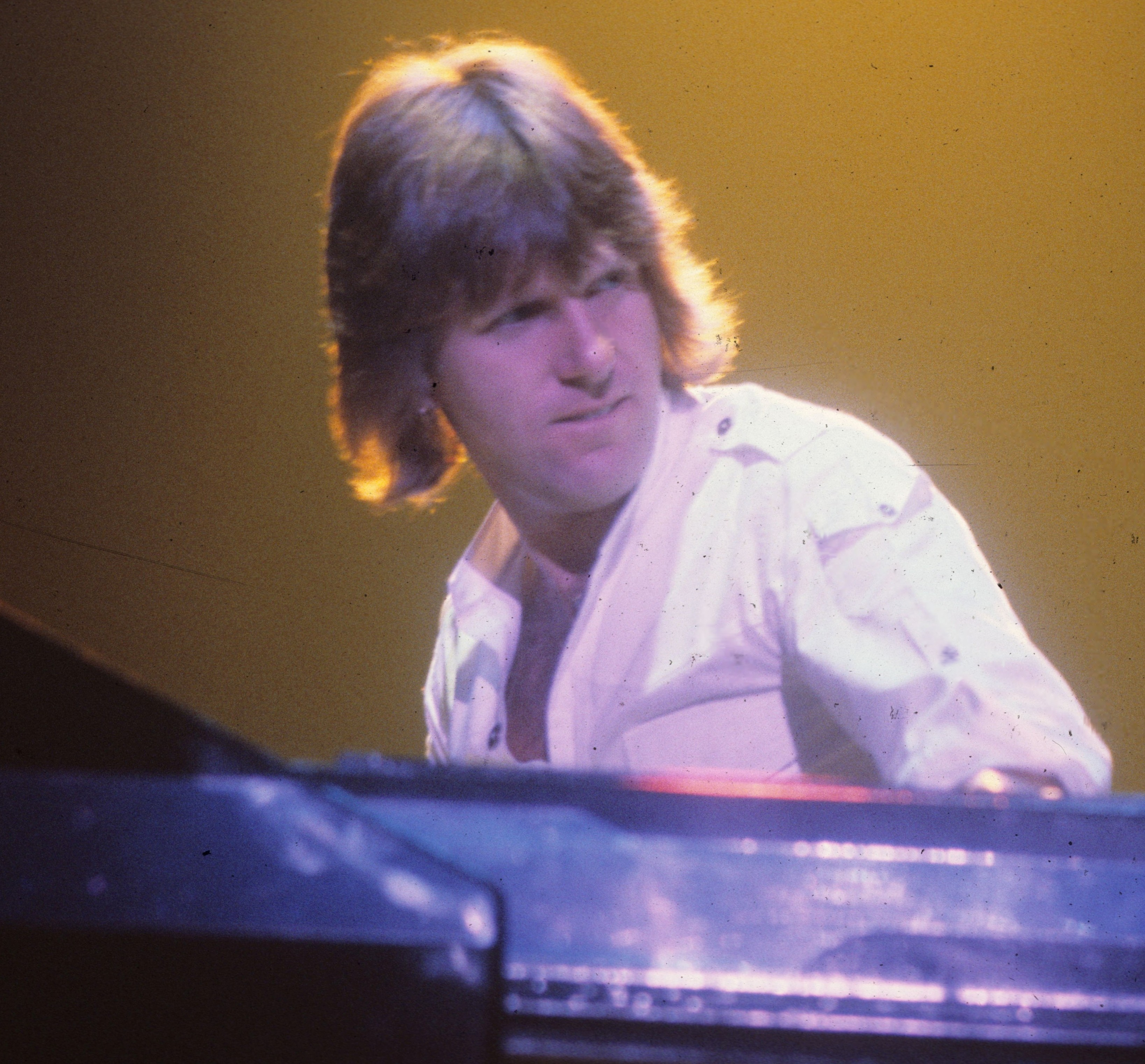 Keith Emerson performing at a WPLR Show